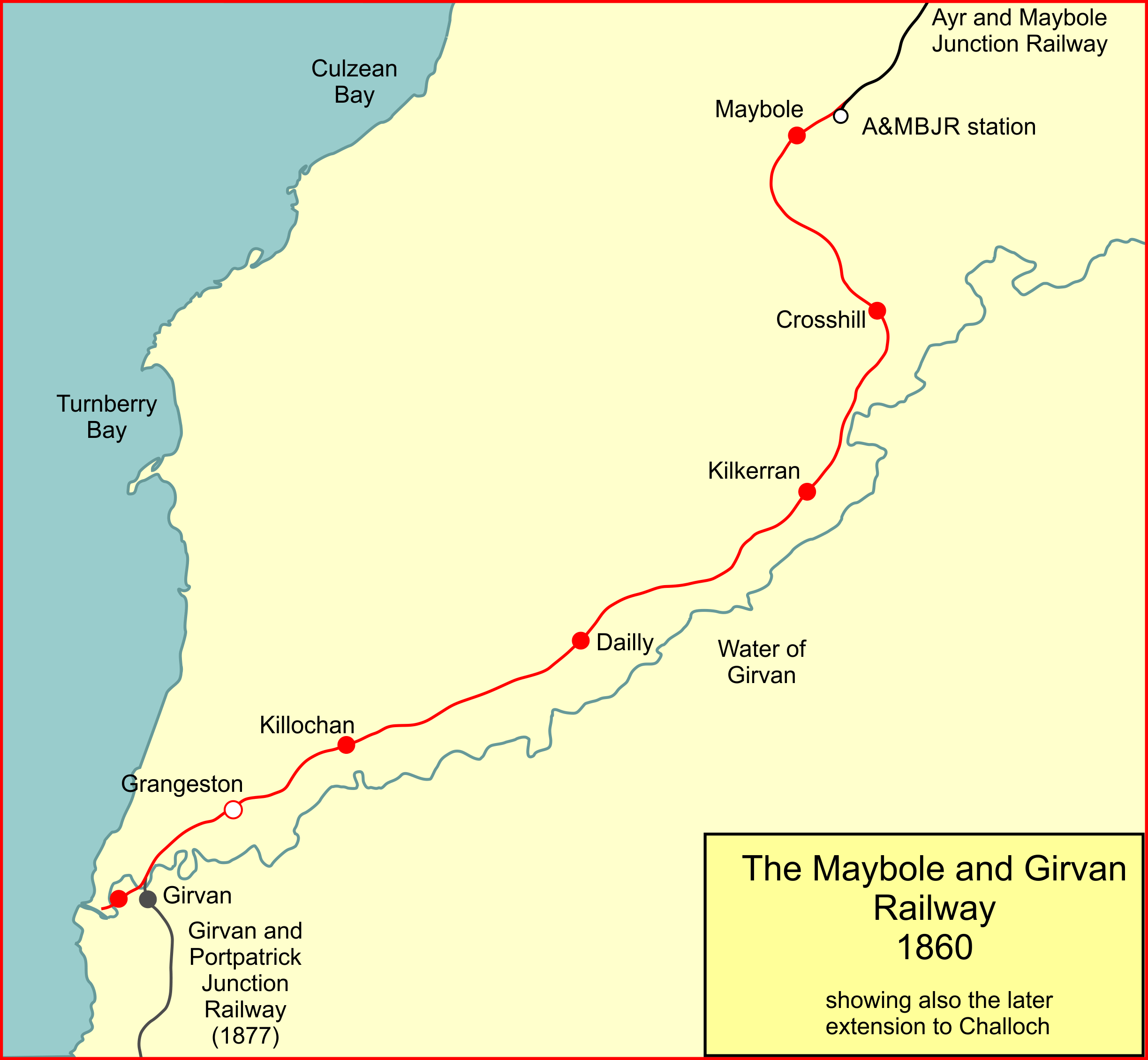 System nap of Maybole and Girvan Railway at opening in 1860